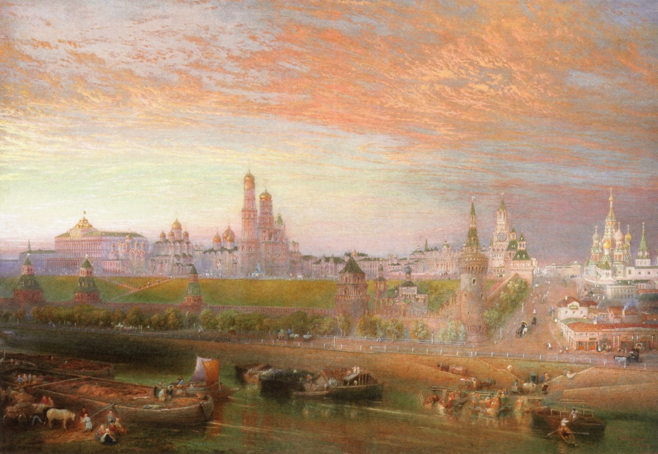 The Kremlin, Moscow by John Cooke Bourne